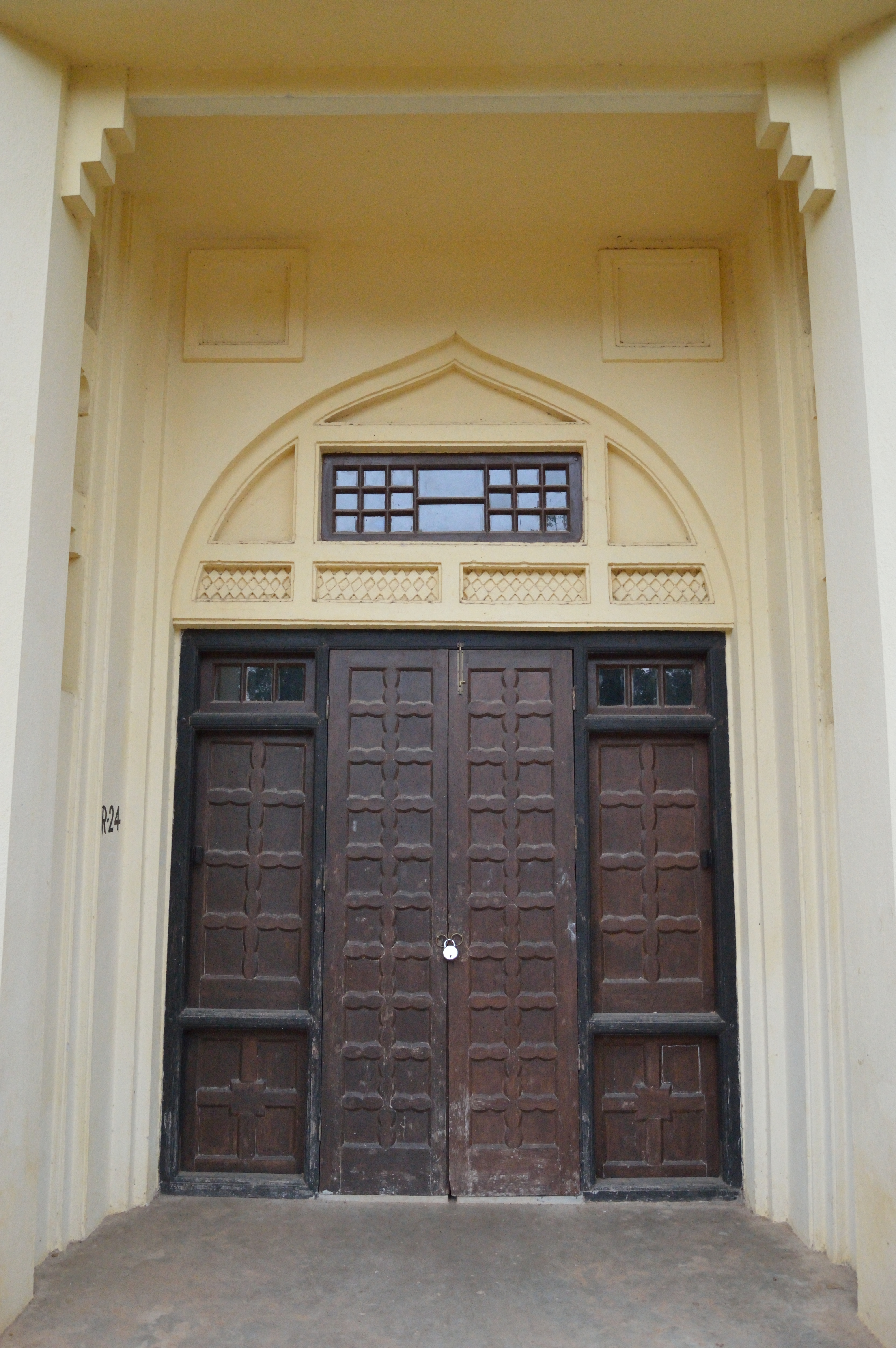 The 'Sinha Sadan’ built out of a donation by Lord Satyendra Prasanna Sinha of Raipur in 1926. Photographed at The Visva-Bharati University complex, Santiniketan.